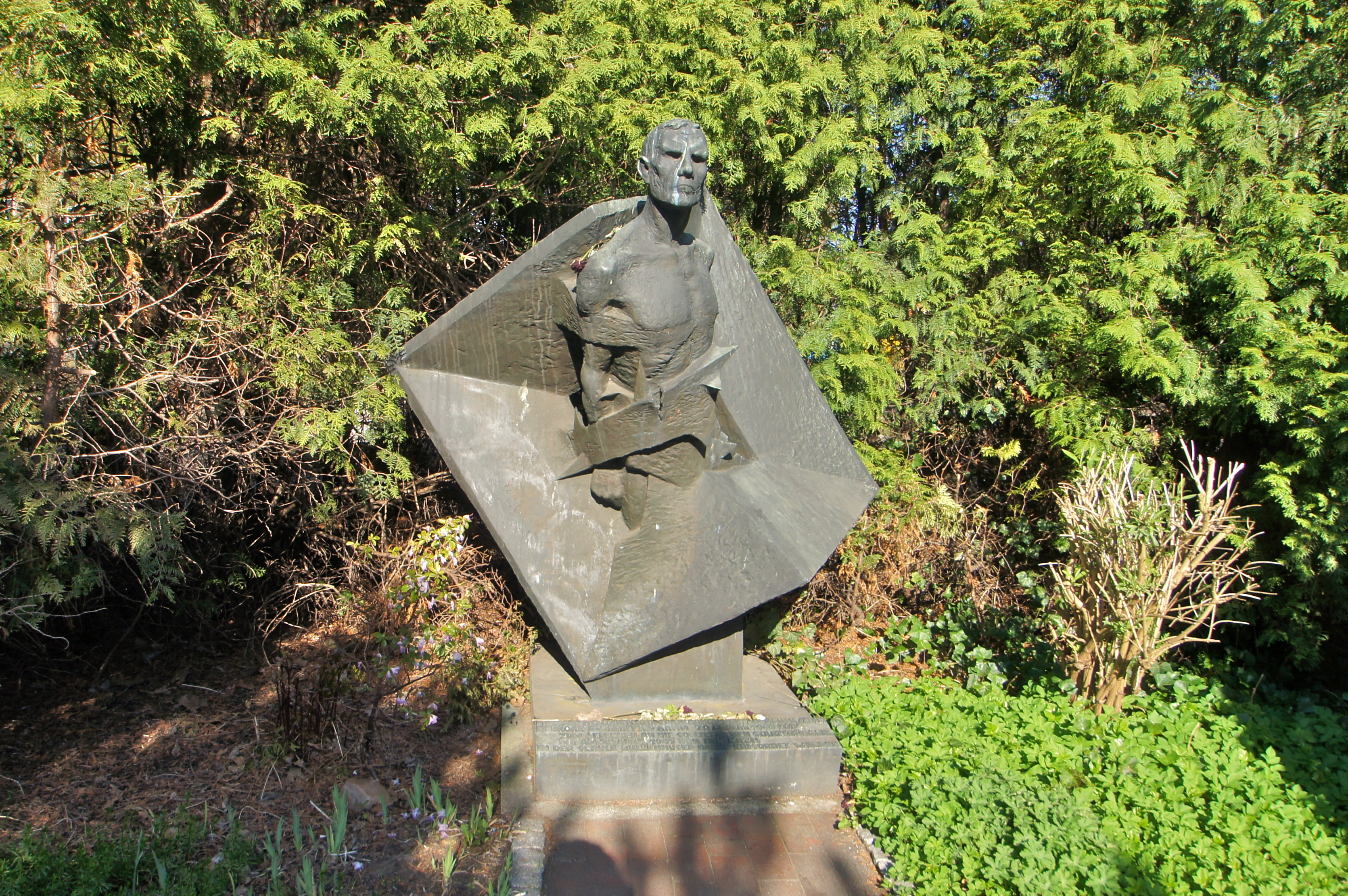 Hamburg (Rothenburgsort), Germany: Monument for the Russians, murdered at Bullenhuser Damm